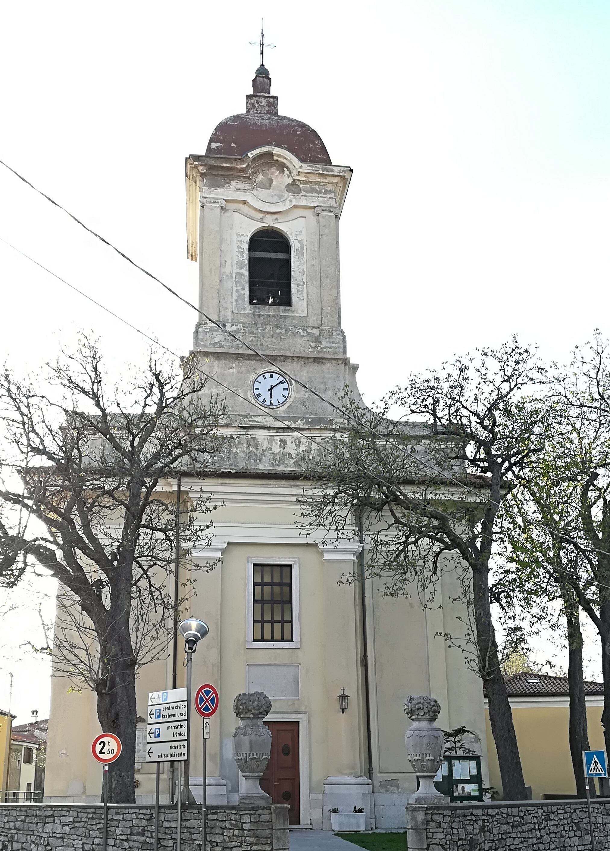 The parish church of Opicina